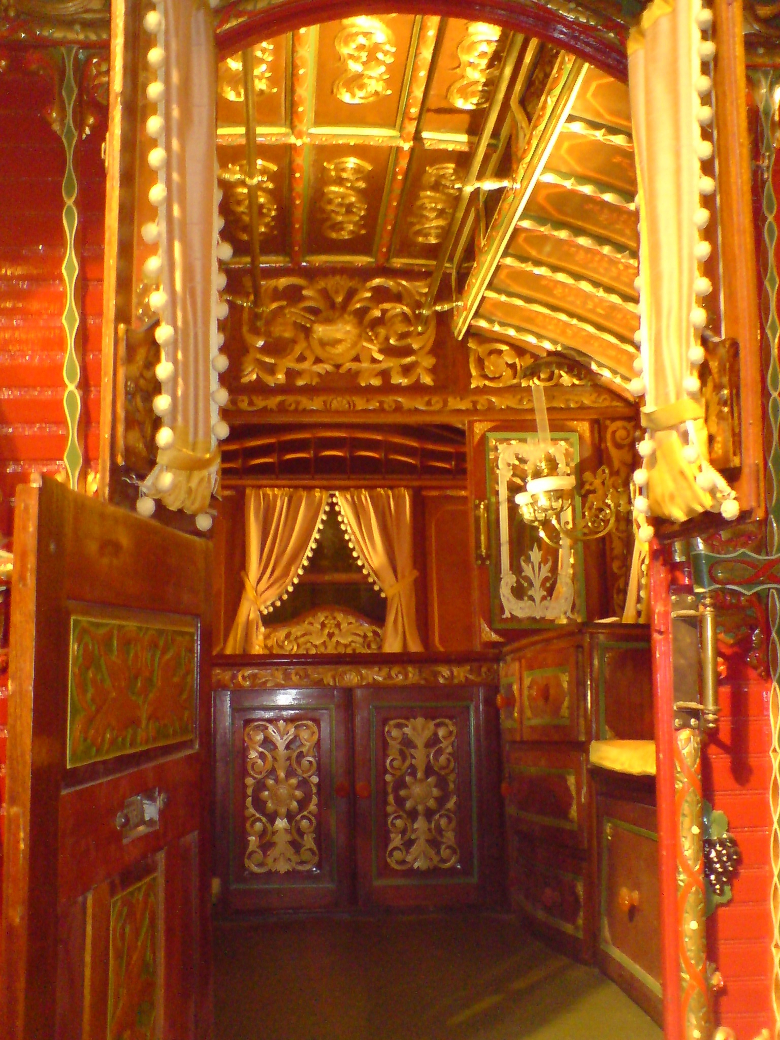 Description: Picture of the interior of a Romanichal Reading vardo wagon. Source: My own work Date: 26/07/08 Location: At a transport museum Glasgow. Author: None taken by Sunset through the clouds (talk) 00:09, 27 October 2008 (UTC)